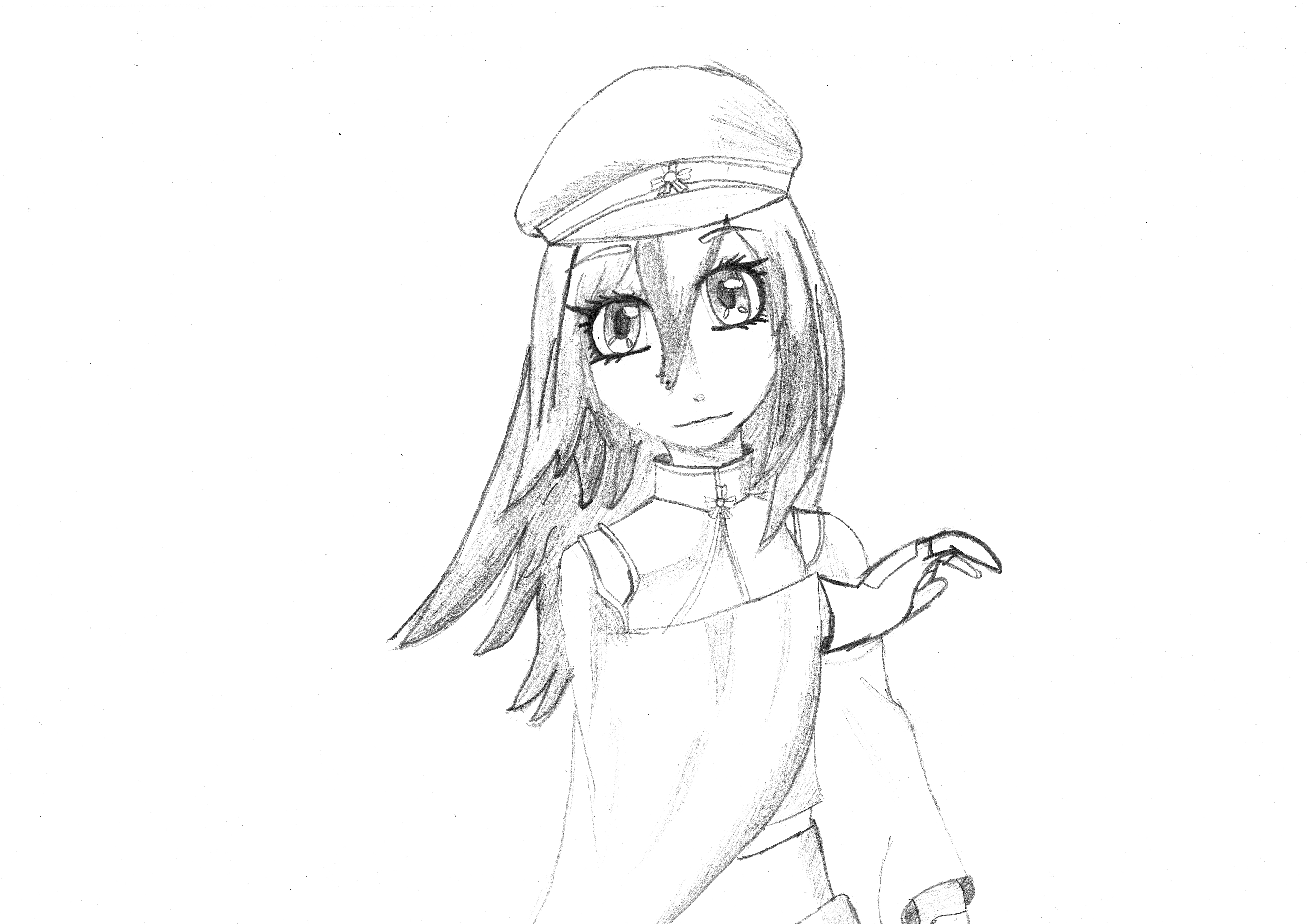 Anime pictures freehand ART by Nina